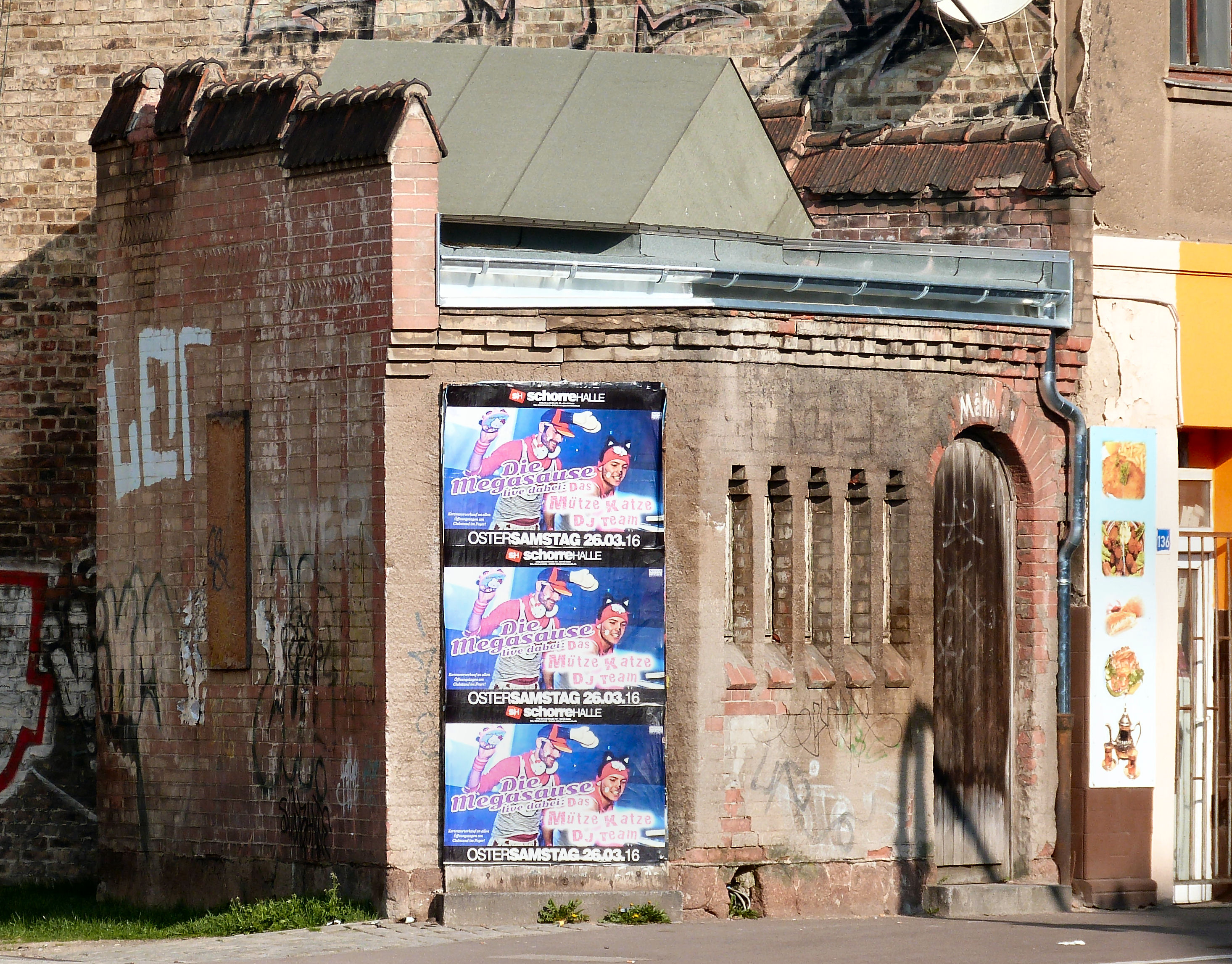 By the House No. 136 Merseburger Straße, at the corner Huttenstraße, restroom from 1902, architect Carl Rehorst